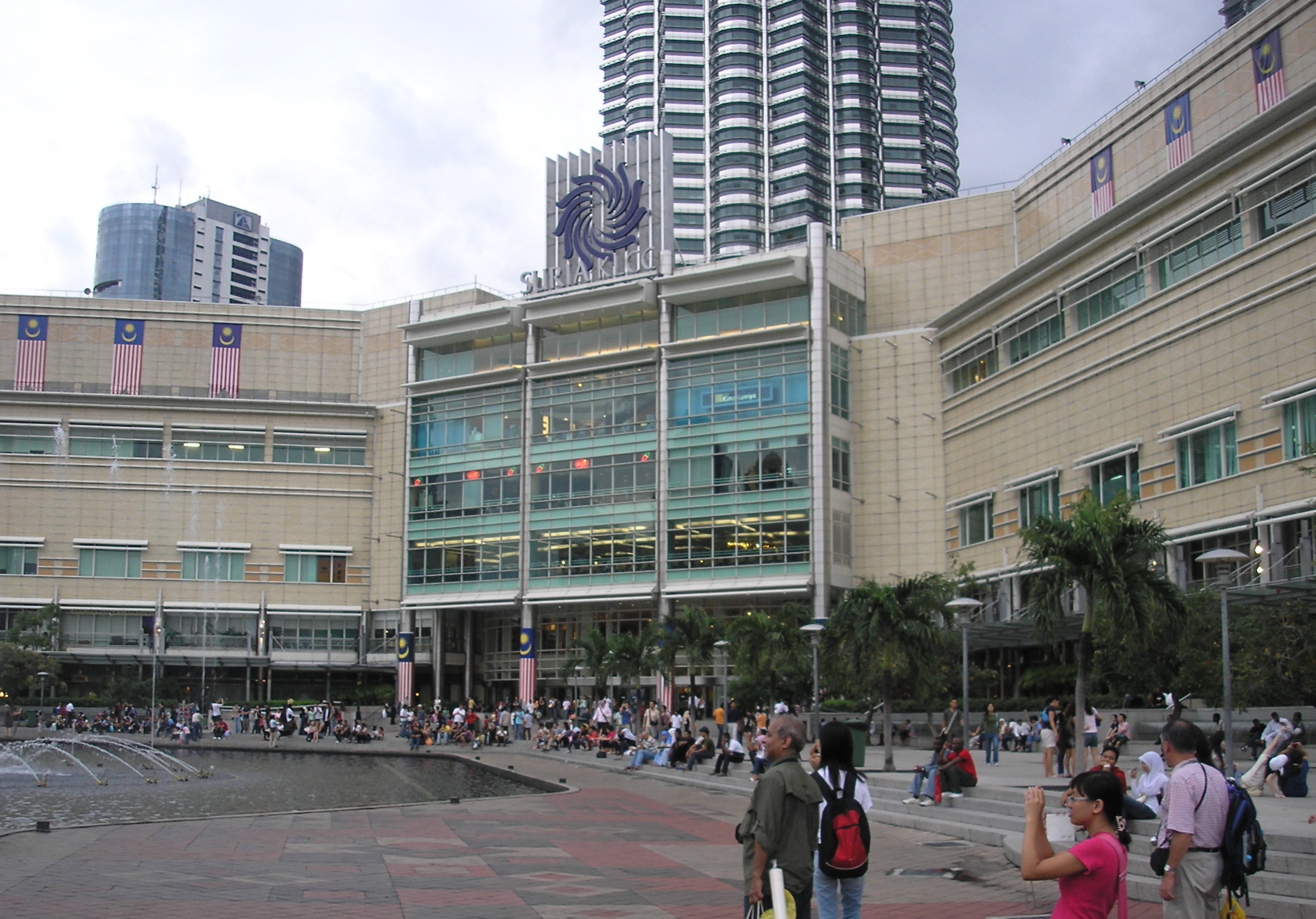 The side of Suria KLCC facing Sinfoni Lake and KLCC Park, in the (new) Kuala Lumpur City Centre (KLCC), Kuala Lumpur, Malaysia. The gathered crowd was witnessing the fountain show at Sinfoni Lake, which can be seen in part in Image:Mandarin Oriental Hotel, Kuala Lumpur.jpg.